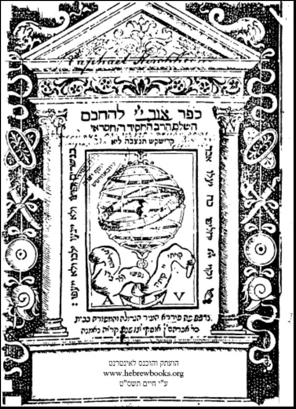 Title page of 1555 edition of «Or Hashem», philosophical work of Rabbi Hasdai Crescas